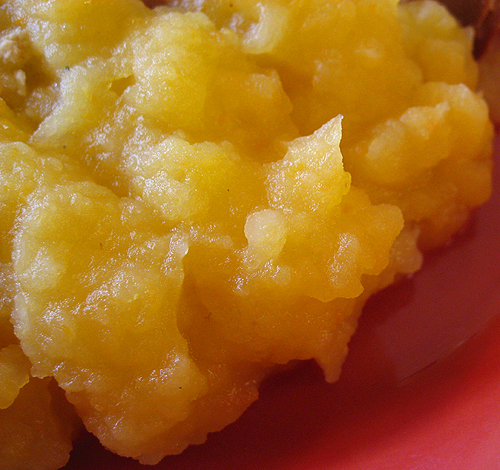 Mashed turnips